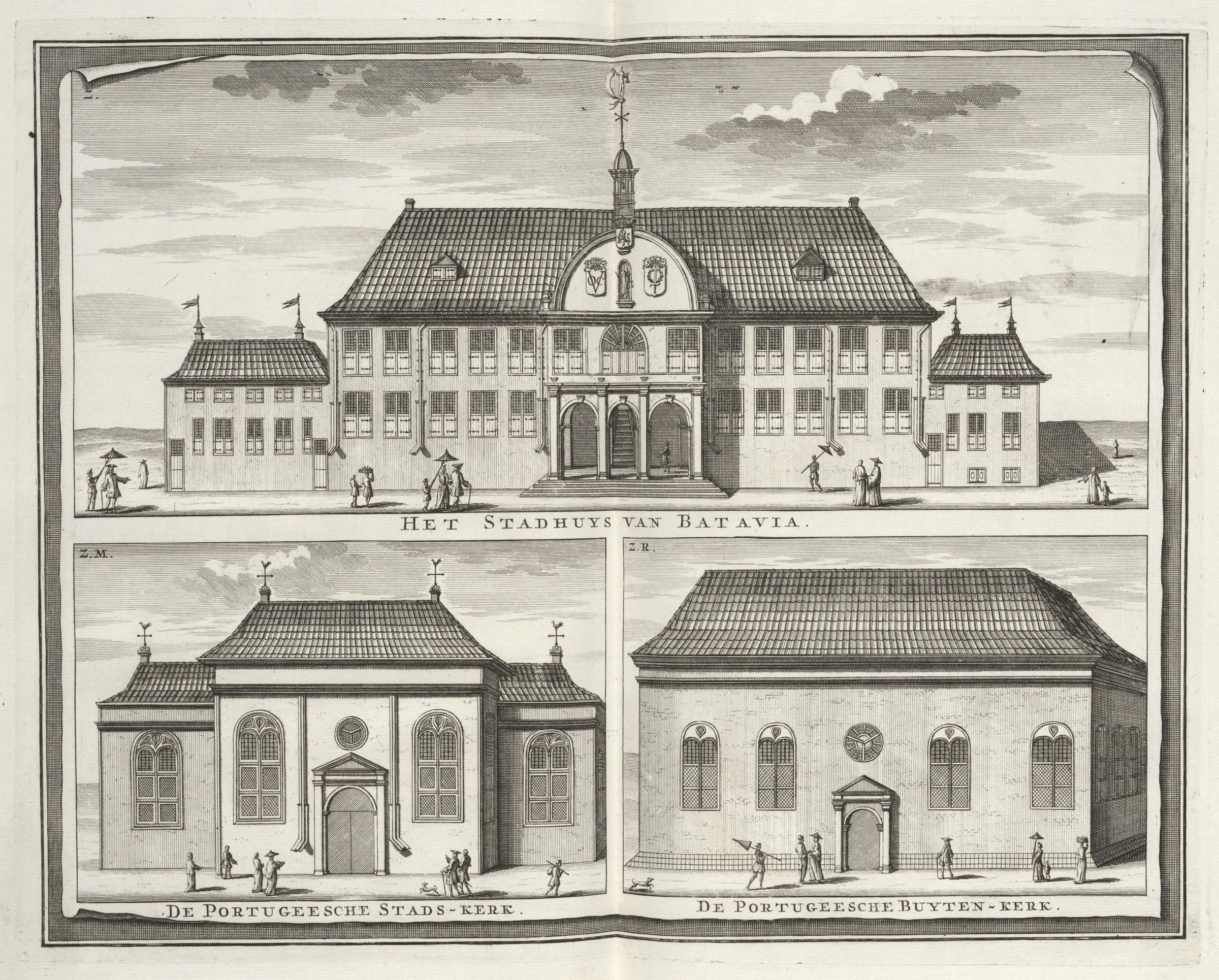 Three views of buildings in Batavia. Het Stadhuys van Batavia / De Portugeesche Stads-kerk / De Portugeesche Buyten-kerk. The plate is taken from the work 'Oud en Nieuw Oost-Indi"en' by Francois Valentyn. The numbers of the illustrations are given in the upper left corners.